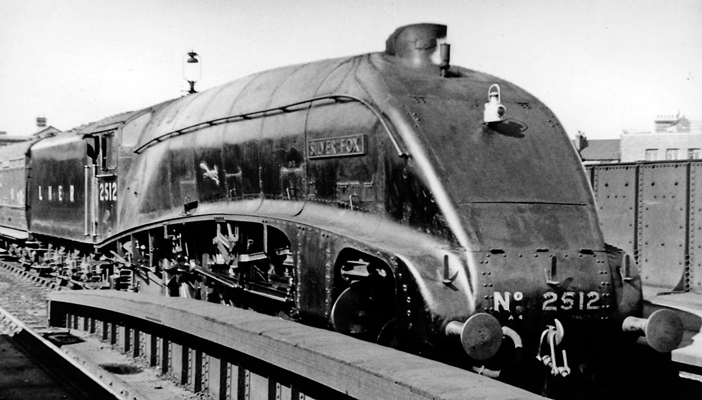 A Gresley A4 Streamliner at Finsbury Park. View northward, towards Hatfield, Hitchin and the North; ex-Great Northern ECML. No. 2512 was one of the first batch built for the 'Silver Jubilee' train. It was working a stopping-train from Cambridge to King's Cross and was stationary, so I was able to get a good photograph with a 'Box Brownie' - one of my very earliest and I was proud of it. Seven Sisters Road is directly underneath